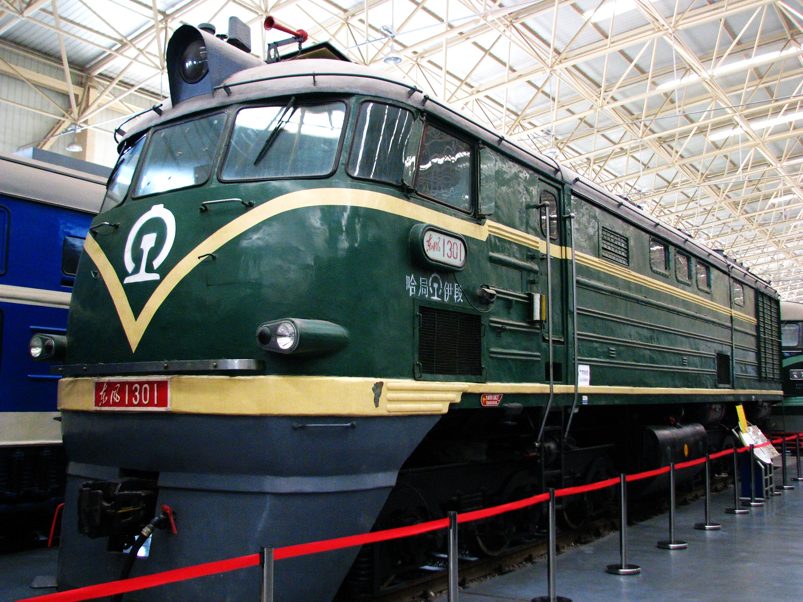 A China Railways DF diesel locomotive, stored in China Railway Museum, Beijing.